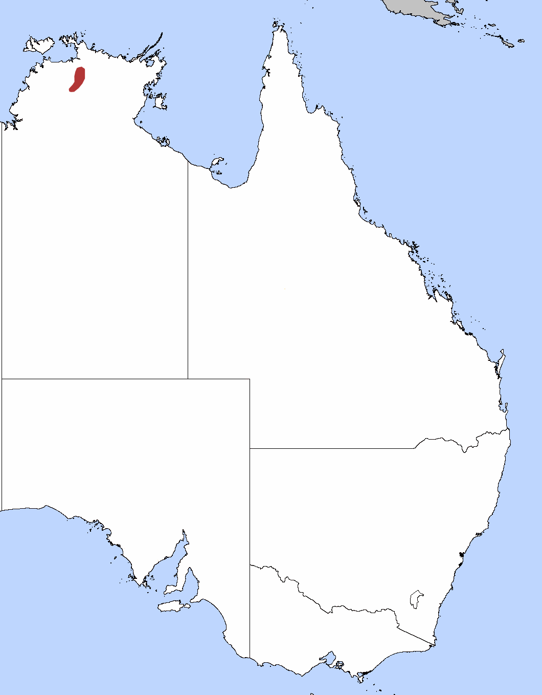 The White-throated Grasswren's Distribution.